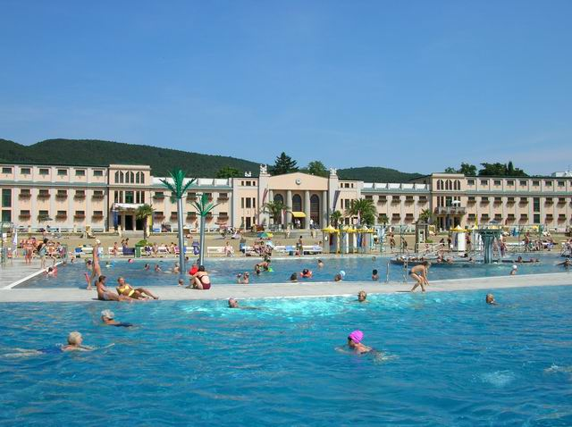 Municipal (thermal) pools, Baden bei Wien, Austria